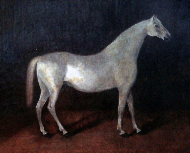 Portrait of an Arabian stallion Smetanka, the founder of the Orlov Trotter breed.